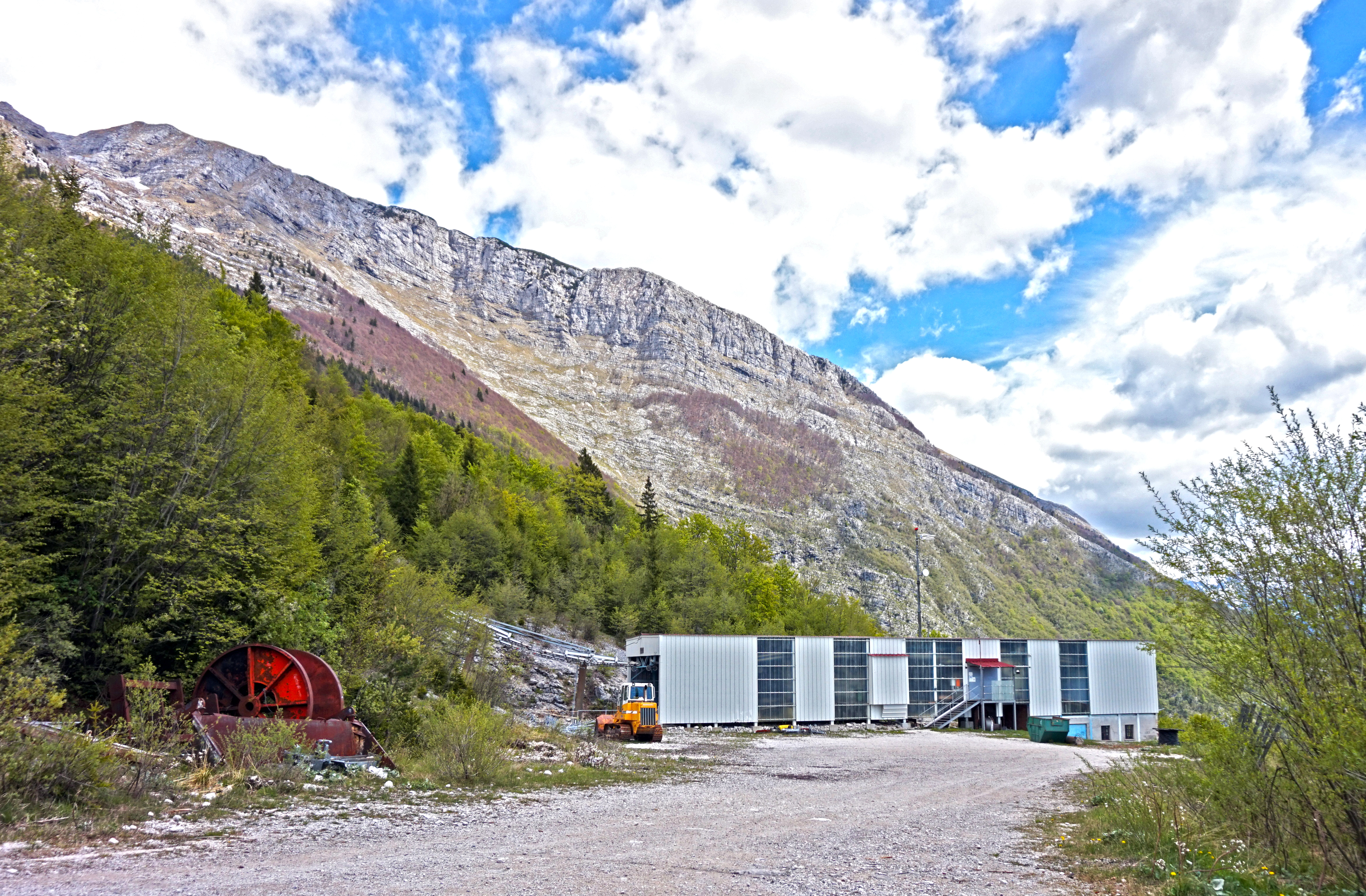 Skilift station Postaja B in Plužna, Slovnia.This photograph was taken with a Sony ILCE-5000